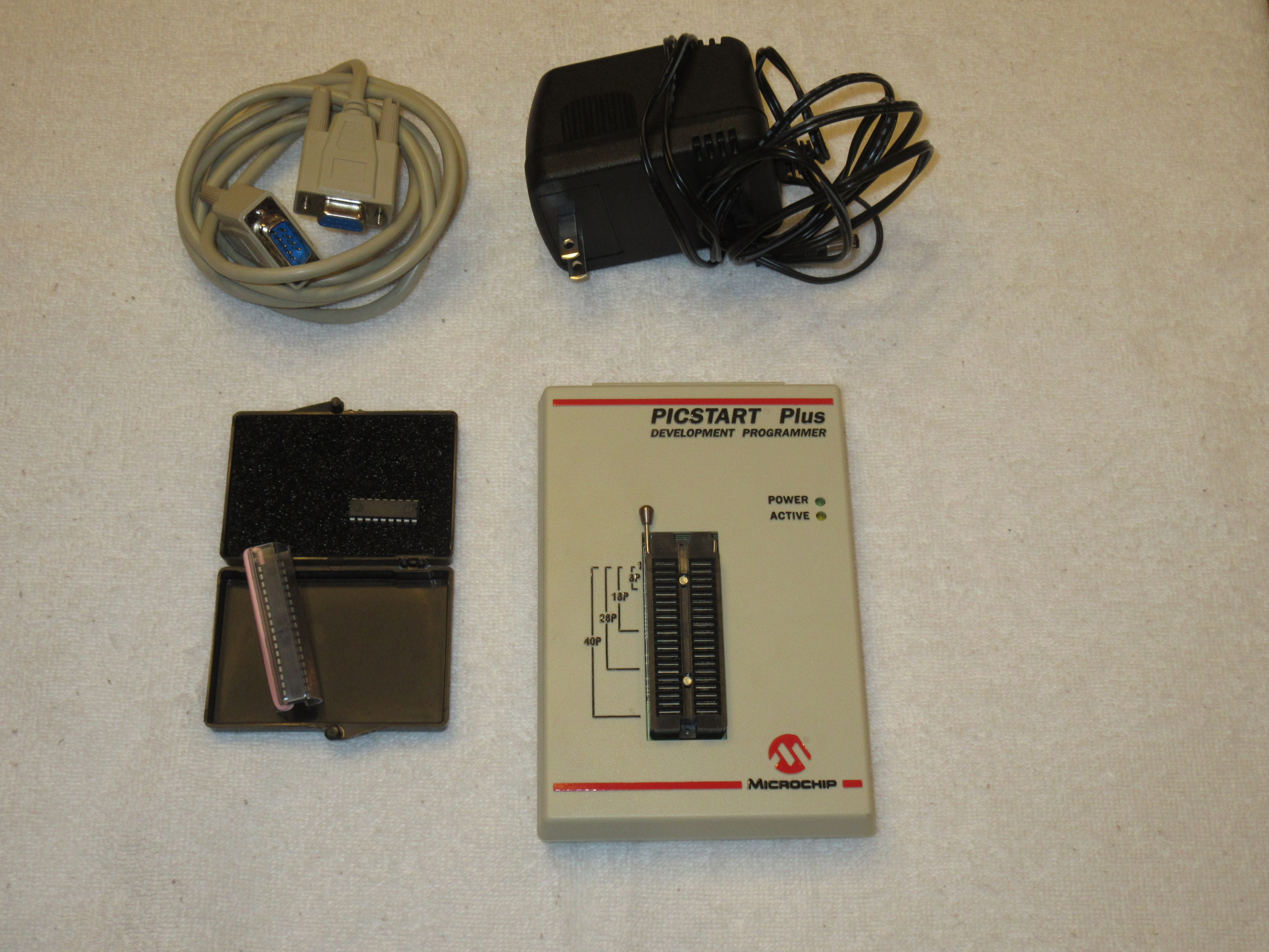 This is a programmer for the Microchip "PIC" family of microcontrollers, as sold in 2003. In use the RS 232 serial cable would connect the programmer to an IBM PC compatible computer running development software. The PIC device to be programmed would be inserted in the zero-insertion-force socket on the programmer. This programmer was intended for education, experimental or low-cost prototype development. High volume programmers had more programming sockets, tighter control of programming parameters, and would be of sturdier construction. In 2003 this unit sold for $300 Canadian (about $200 US at the time).